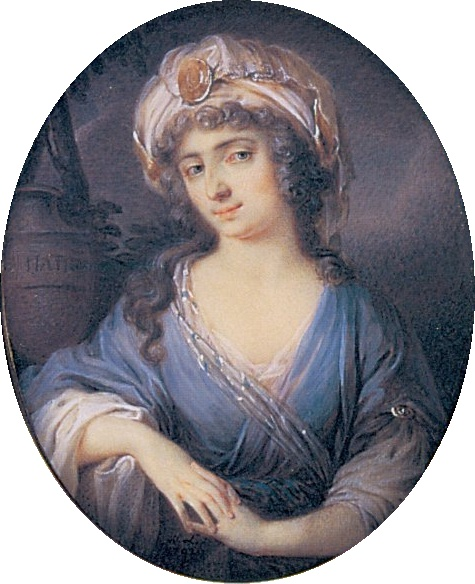 Wife of Antoni Jabłonowski